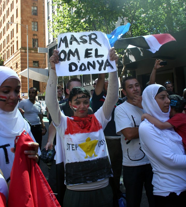 200 people rallied outside the Egyptian Consulate In Melbourne. Temperatures were hot reaching 40 degrees today, but the skyscrappers and trees in Market Street made the rally bearable.